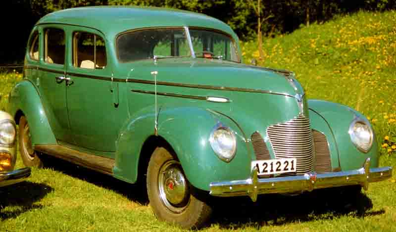 Hudson Country Club Six (Series 93) 4-Door Touring Sedan (1939)